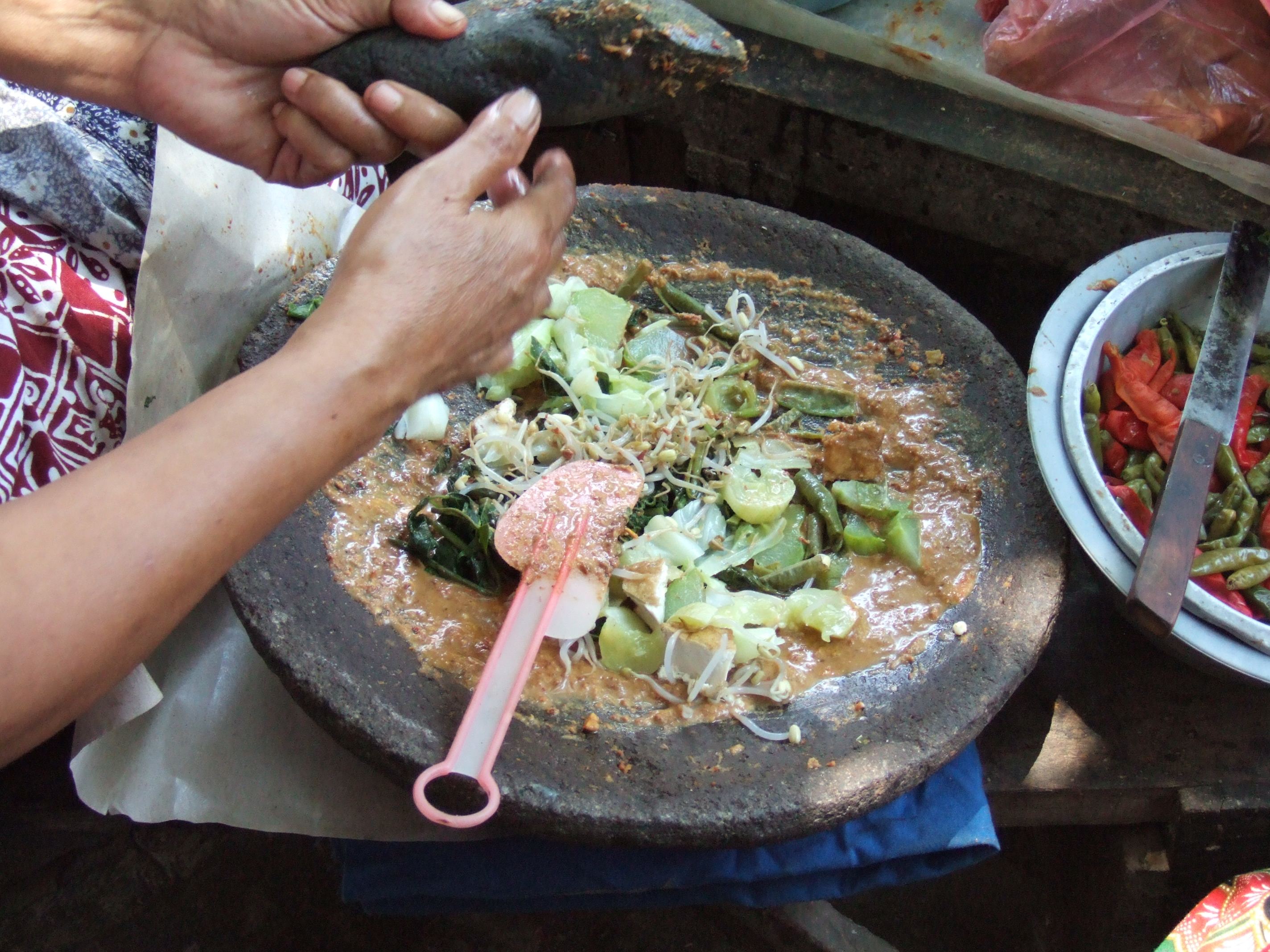 Gado-gado ulek is being prepared.